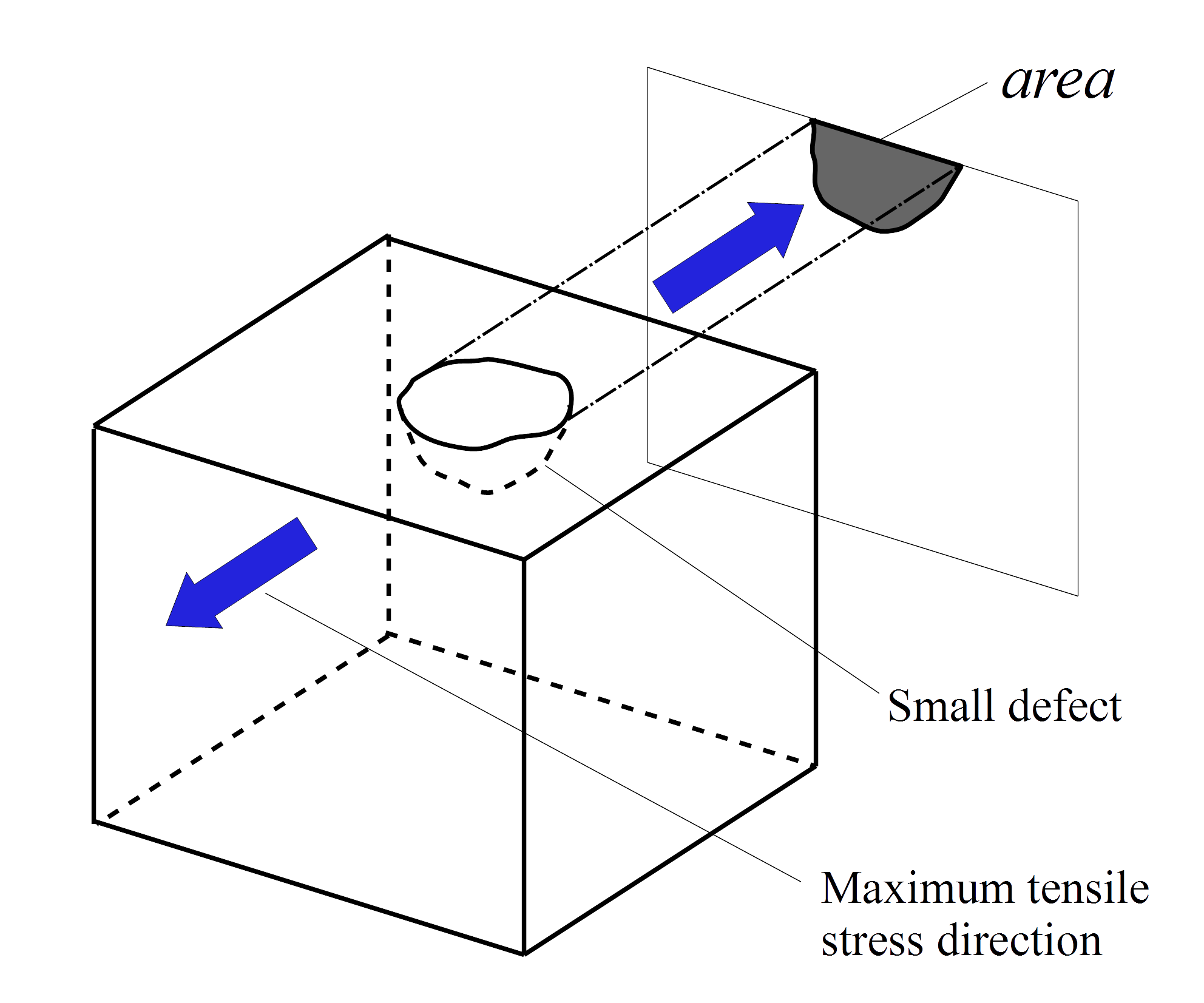 square root area parameter model (Murakami-Endo model)